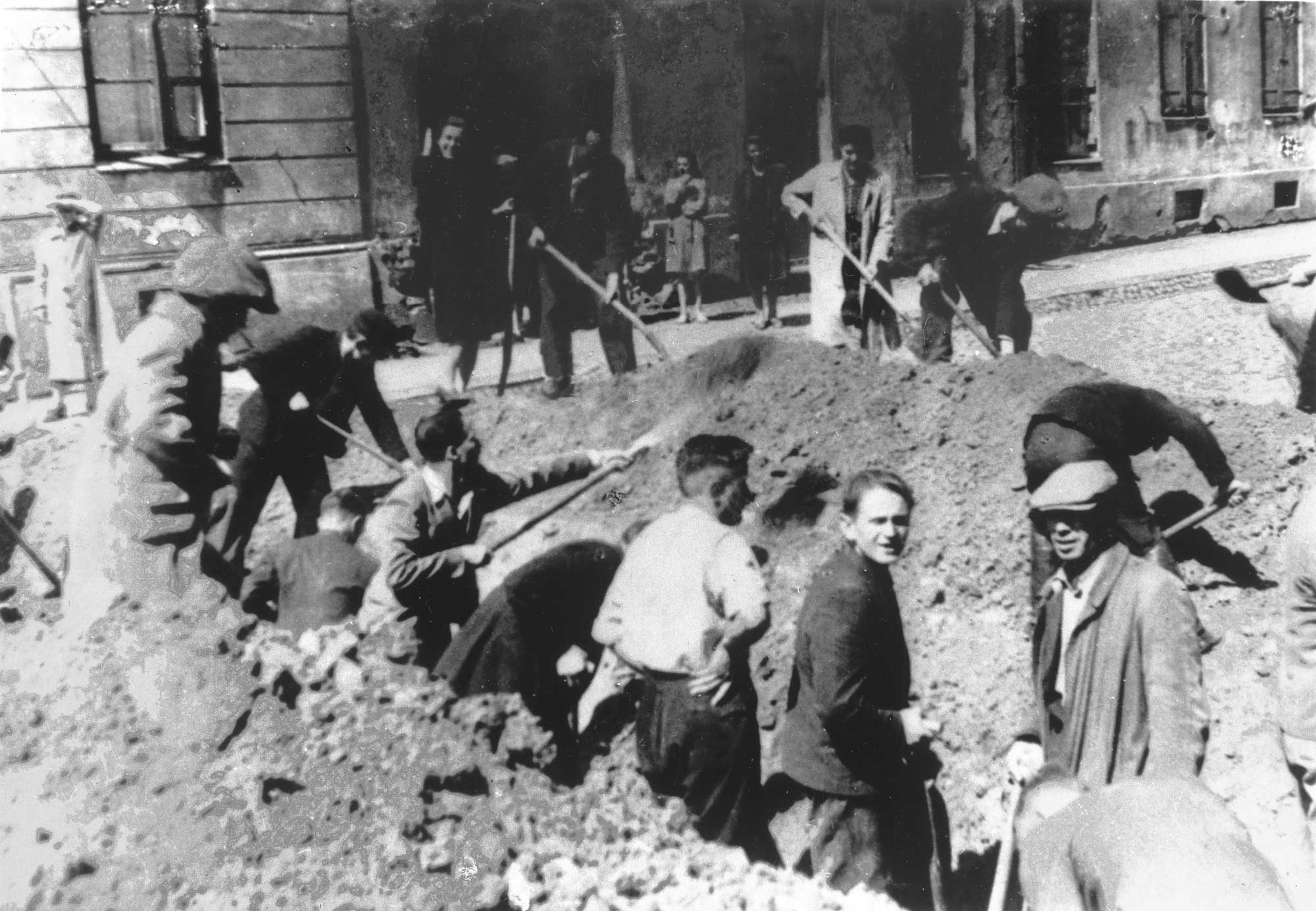 Warsaw Uprising: Digging of anti-tank trench and barricade construction in Wola district.